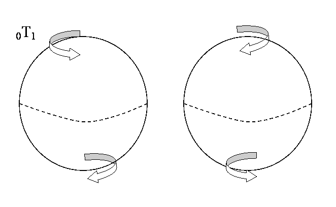 A scheme of motion during fundamental toroidal oscillation of the Earth. Figures present sense of motion for two times.